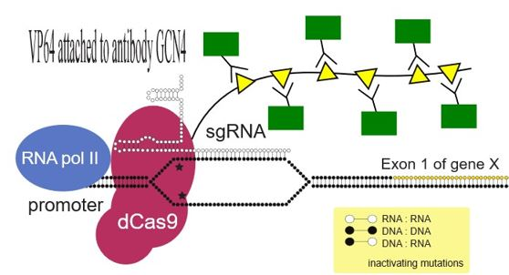 Modified version of dCas9 suntag activator. The original dCas9 suntag activator image was and adaptation of SA UBC's work, CRISPR effectors